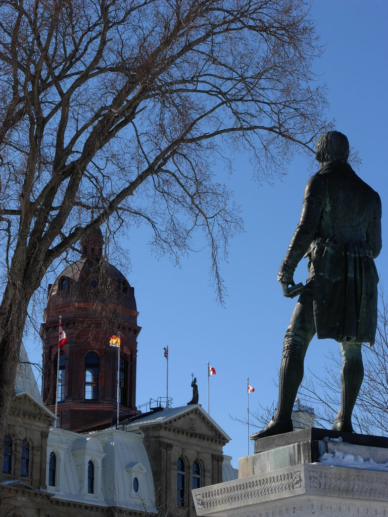 Robert Burns statue, across from the Provincial Legislature in downtown Fredericton. The statue by William Grant Stevenson was unveiled on 18 October 1906.